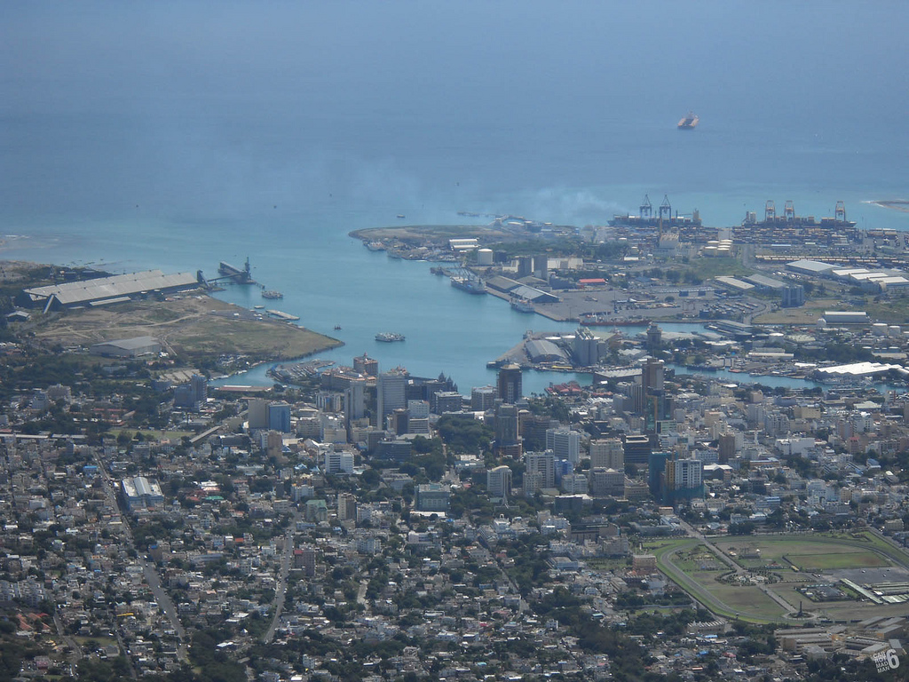 View of Port Louis, Mauritius, harbor from the mountain Le Pouce.